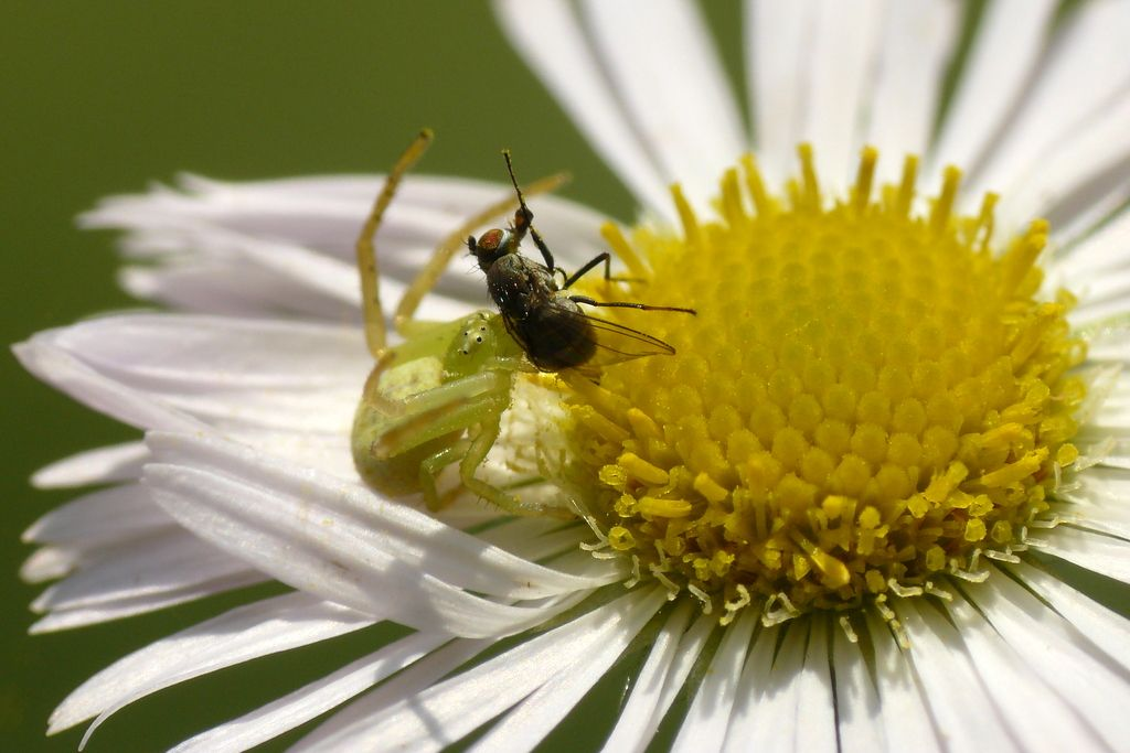 Misumena vatia